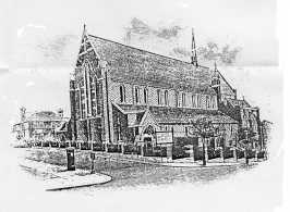 The original building of, Wightman Road, Harringay, London, N4, as seen about 1930. It was destroyed by fire in 1984 and replaced by a new building in 1993.